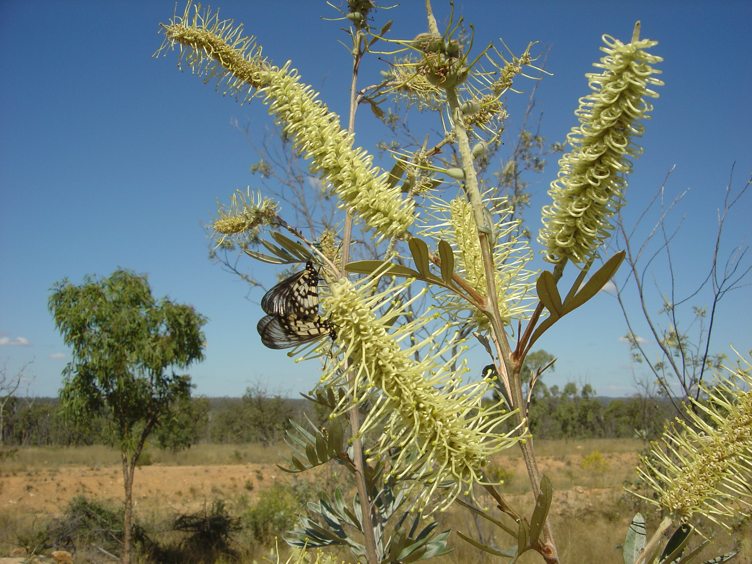 Grevillea sessilis, Mt Coolon Rd. The butterflys are glass-wings